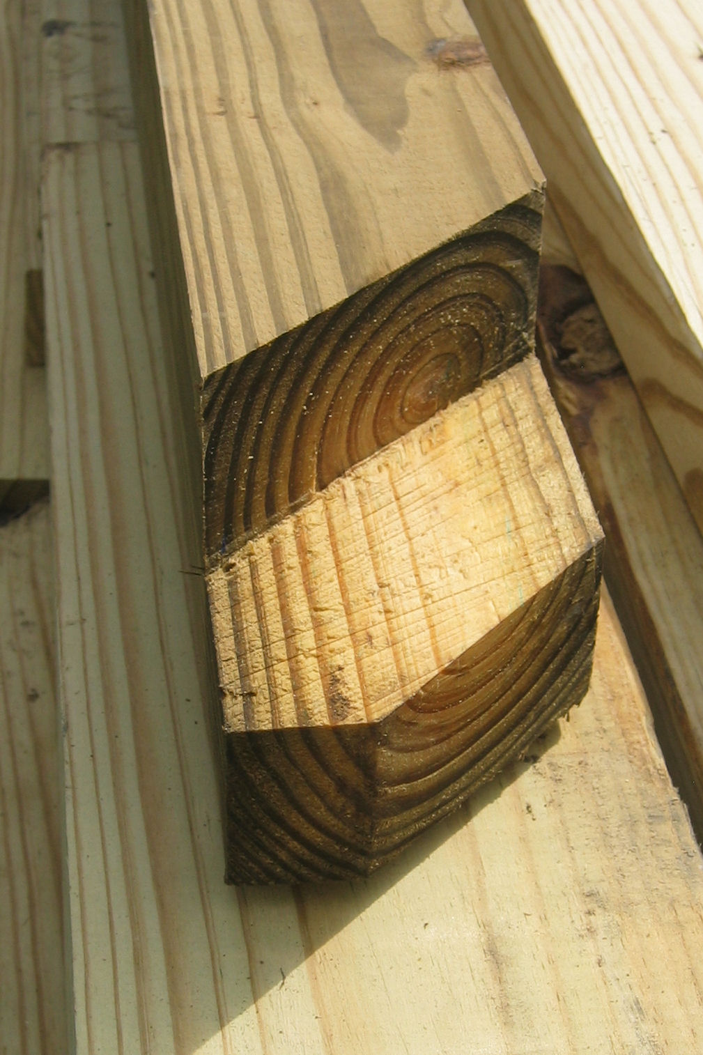 Fasteners used with treated lumber require special consideration because of the corrosive nature of chemicals used in pressure treated lumber.